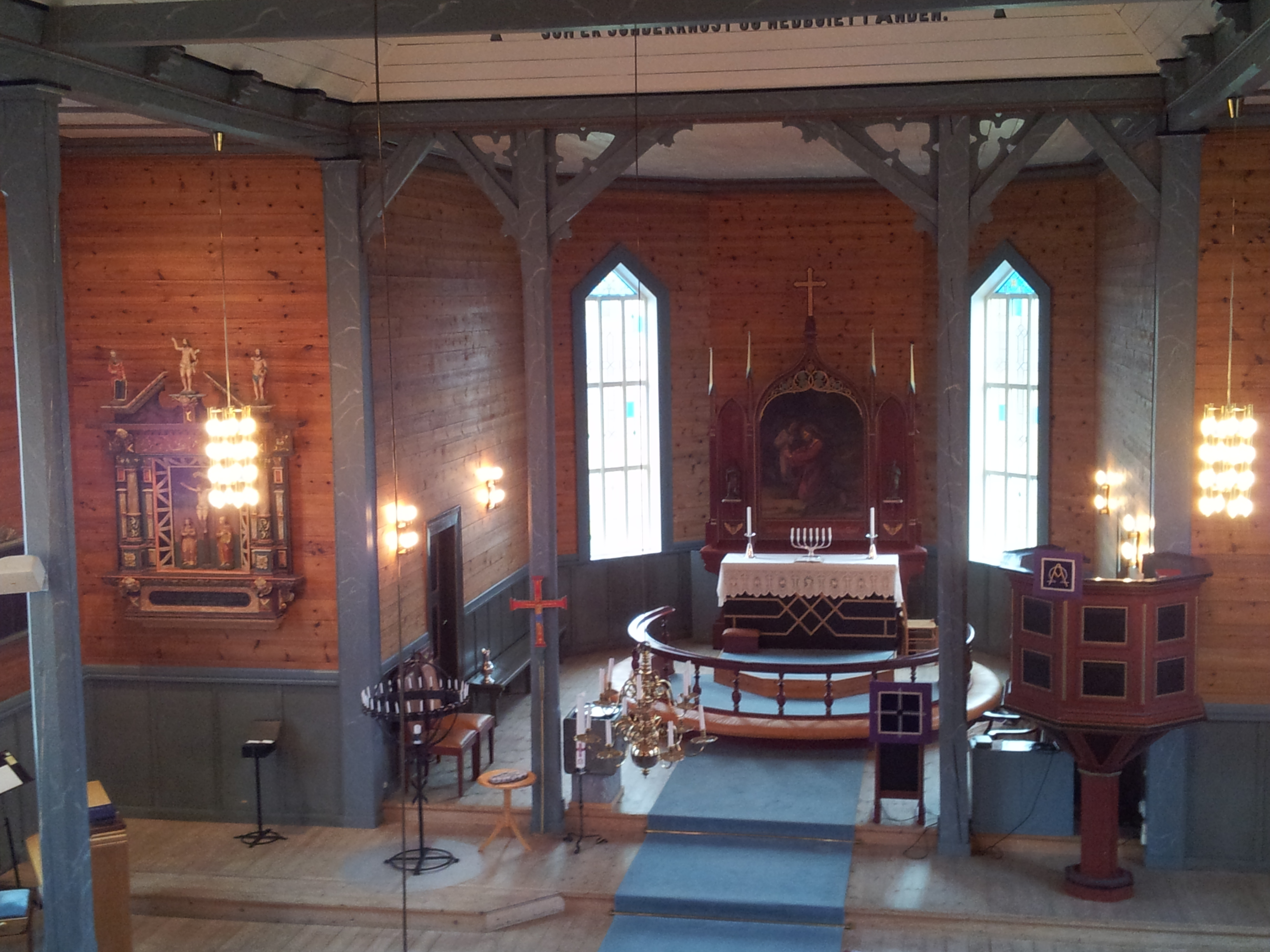 Inside Austrheim church, Austrheim, Norway